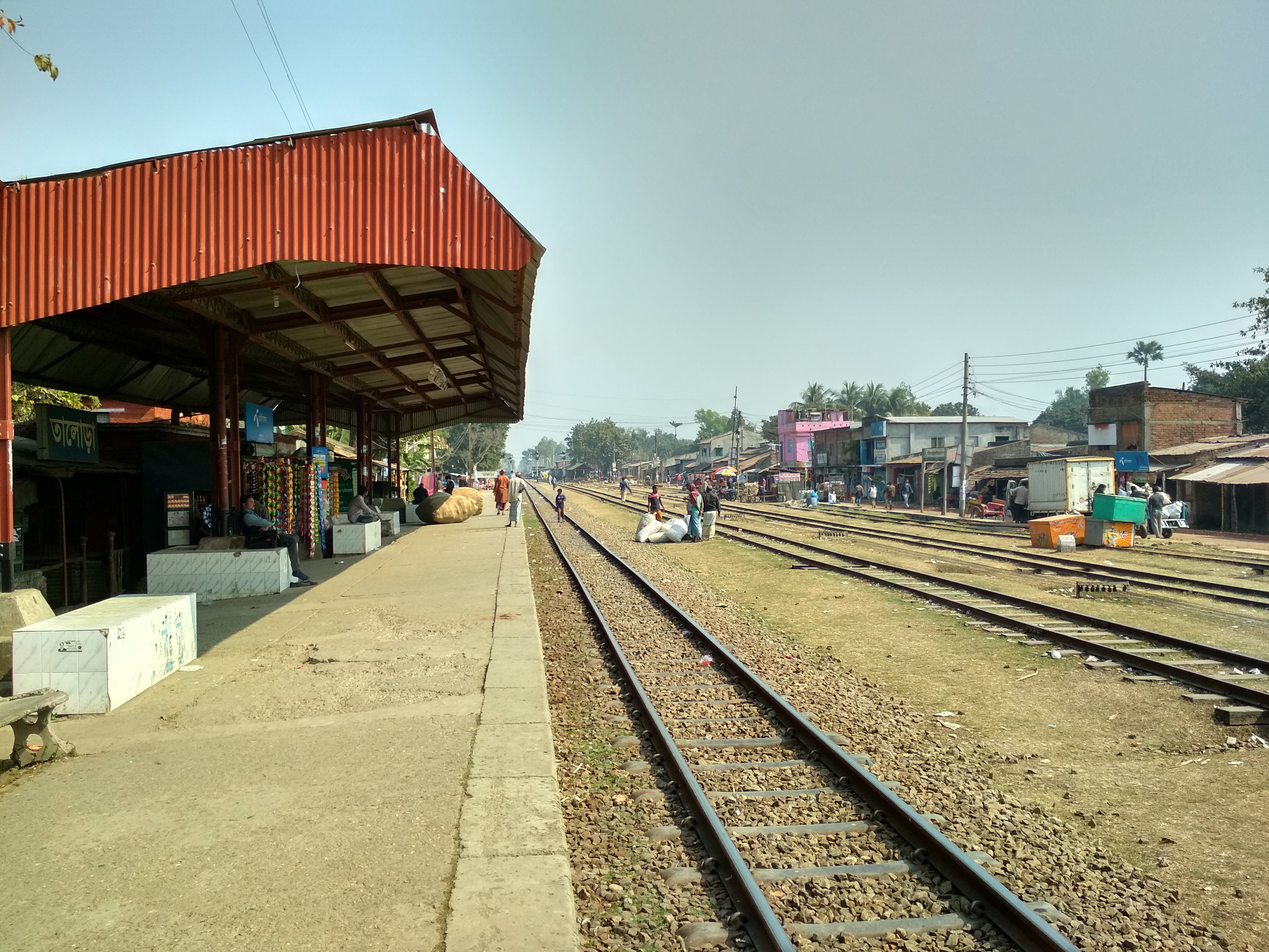 Talora Railway Station, Dupchanchia, Bogra